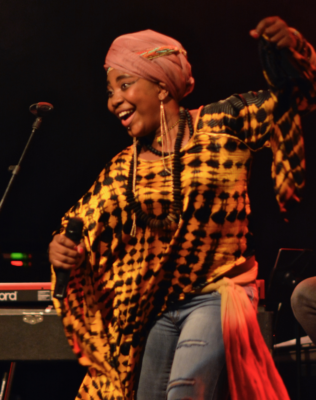 Yvonne Mwale performing at the release concert of her Album "Msimbi Wakuda" in Frankfurt, Germany.